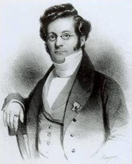 Constantin Rodenbach (1791-1846), Belgian politician